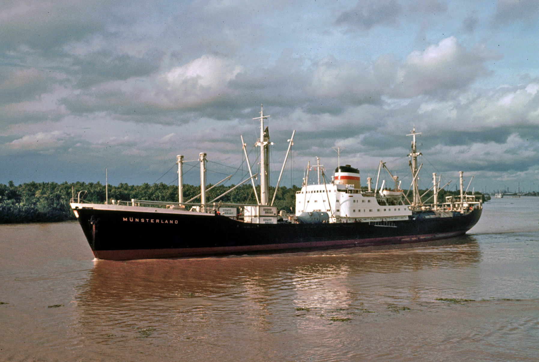 Hapag-Lloyd cargo ship Munsterland - Bangkok on the Chao Phraya River - 1975-76